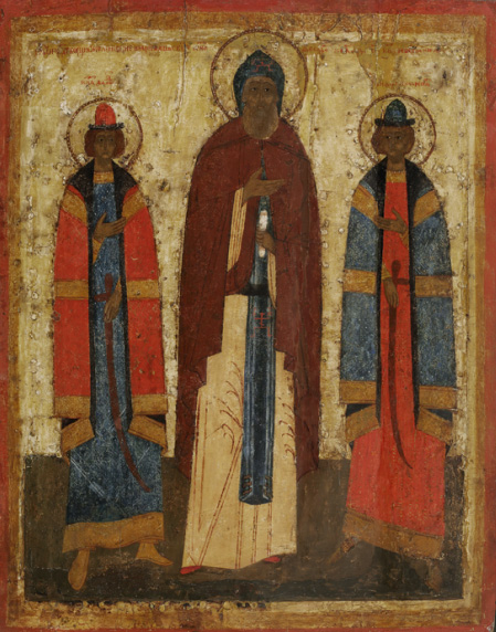 Sts. David, Theodore and Constantine of Yaroslavl Late 15th centuty. From the Museum of the Russian icon in Moscow, Russia.